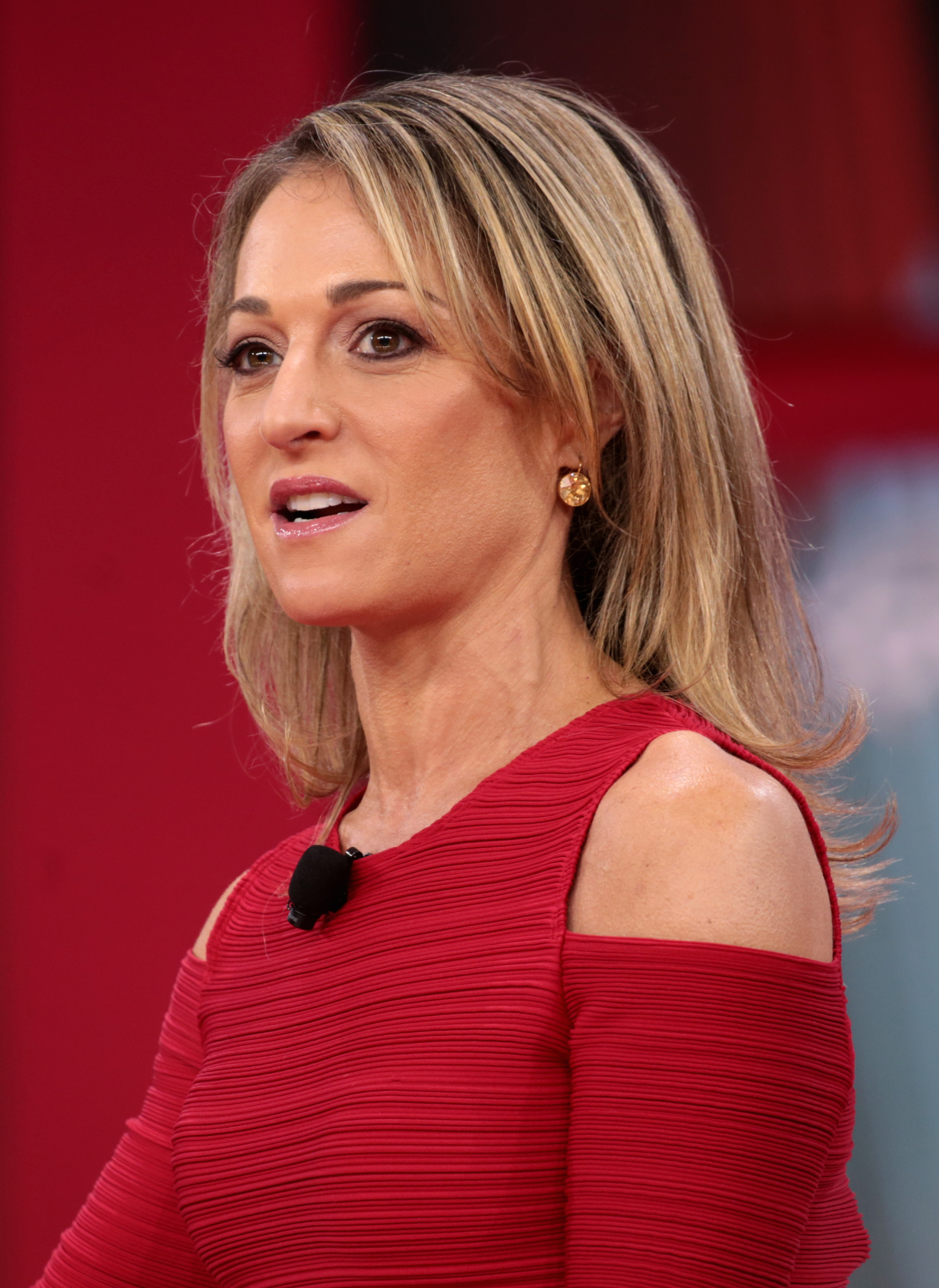 Emily Miller speaking at the 2018 CPAC in National Harbor, Maryland.